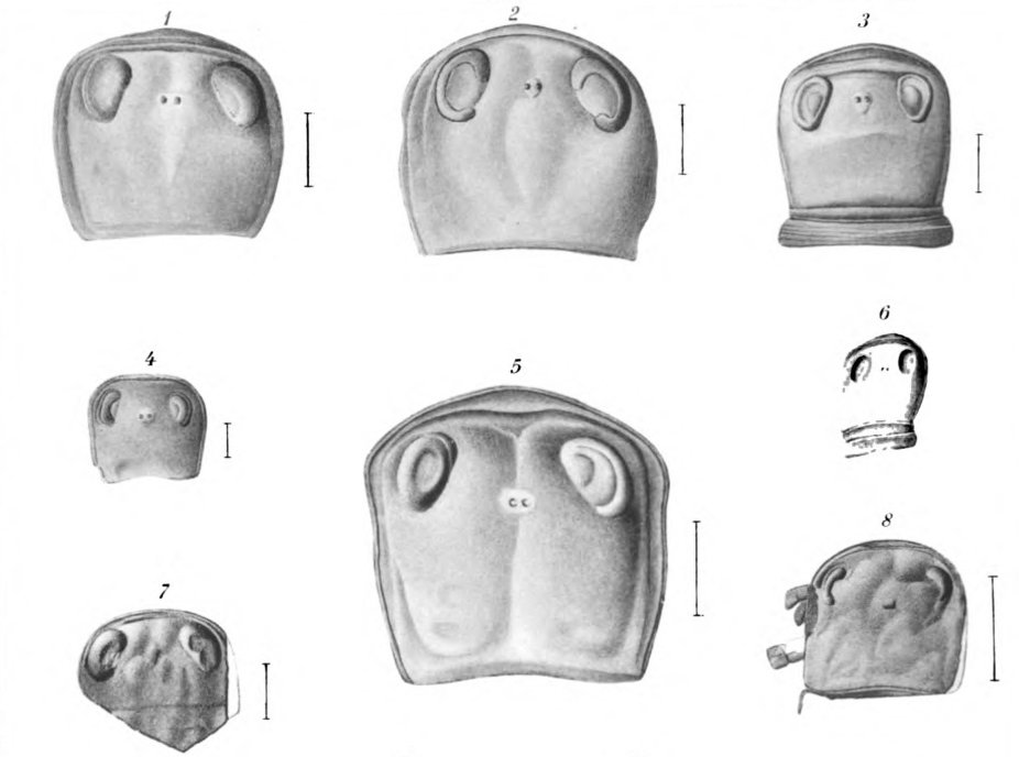 Crop of file in filename